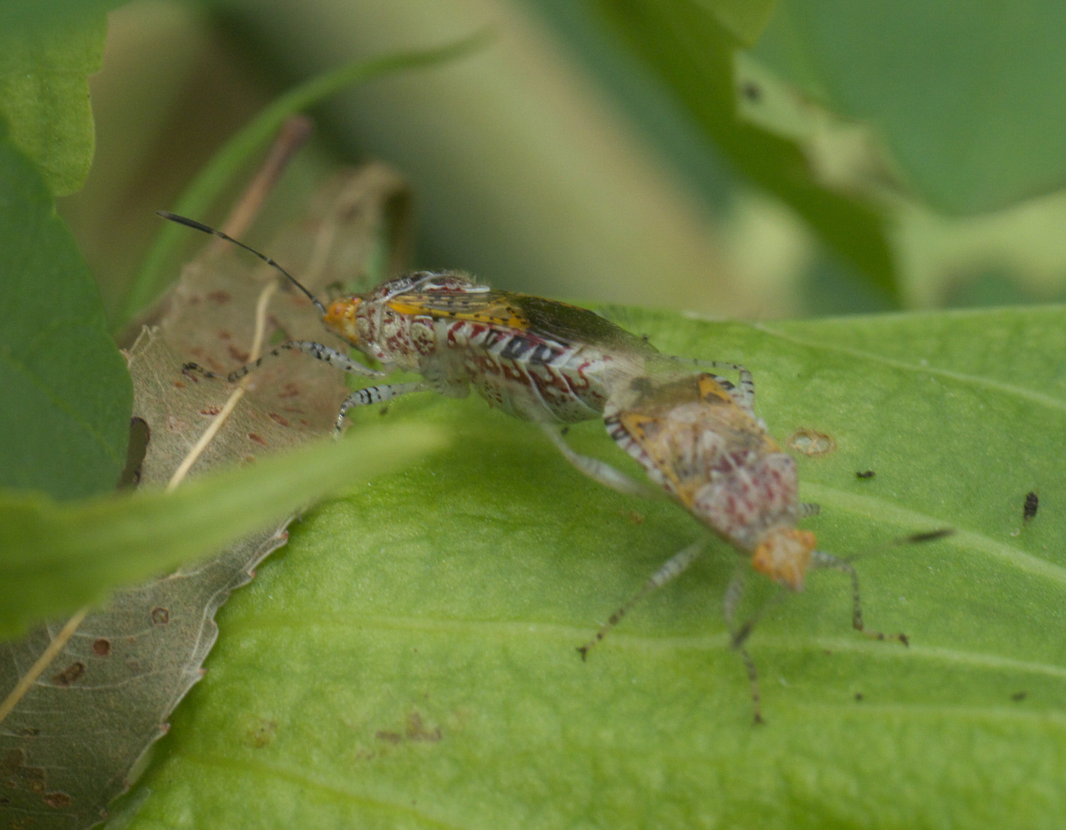 Niesthrea louisianica, Family: Scentless Plant Bugs, ID Confidence: 60